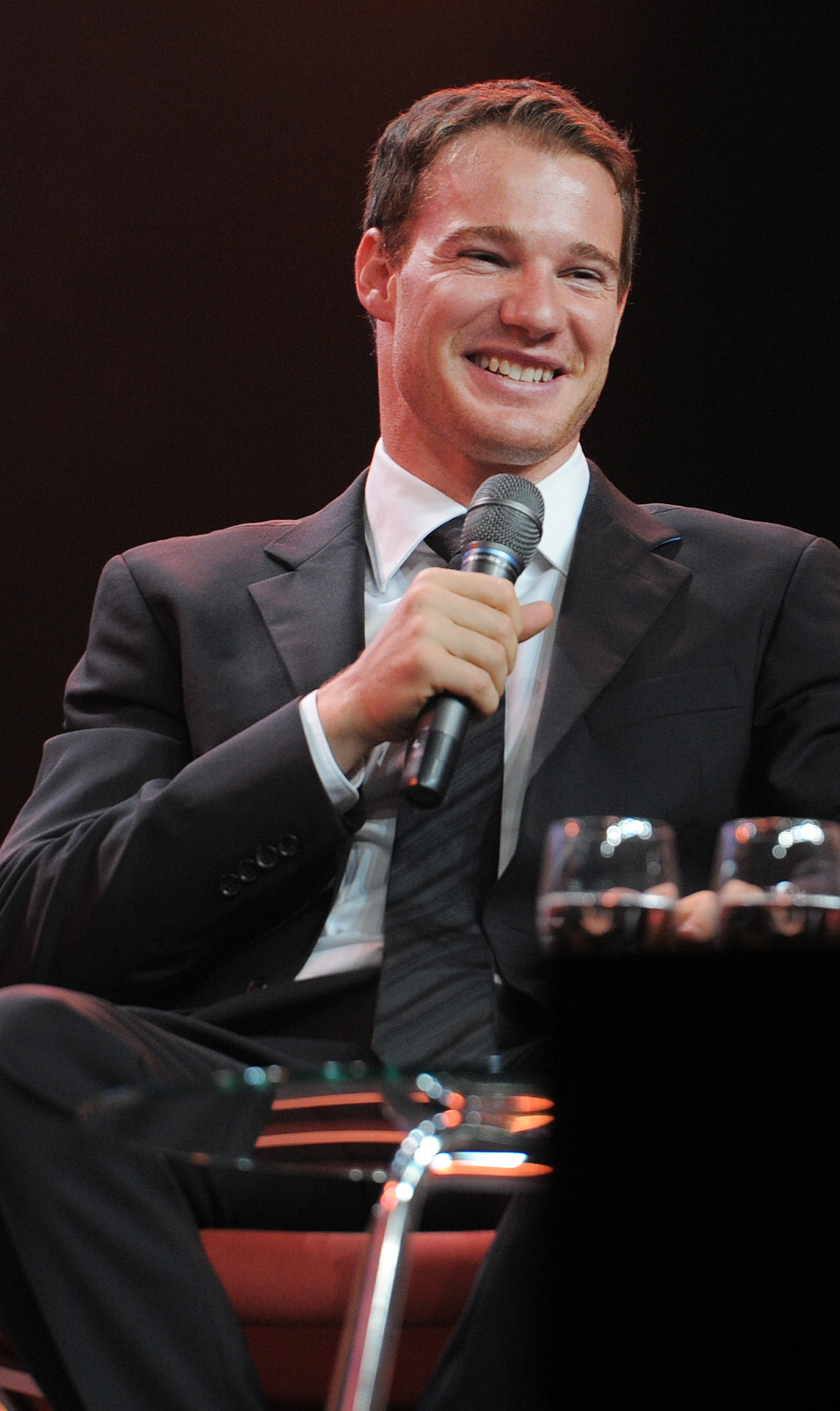 Davos, 03.10.2014. Sport, 12. Internationale Sportnacht Davos 2014. Ein gut gelaunter Dario Cologna.. Copyright by: foto-net / Kurt Schorrer